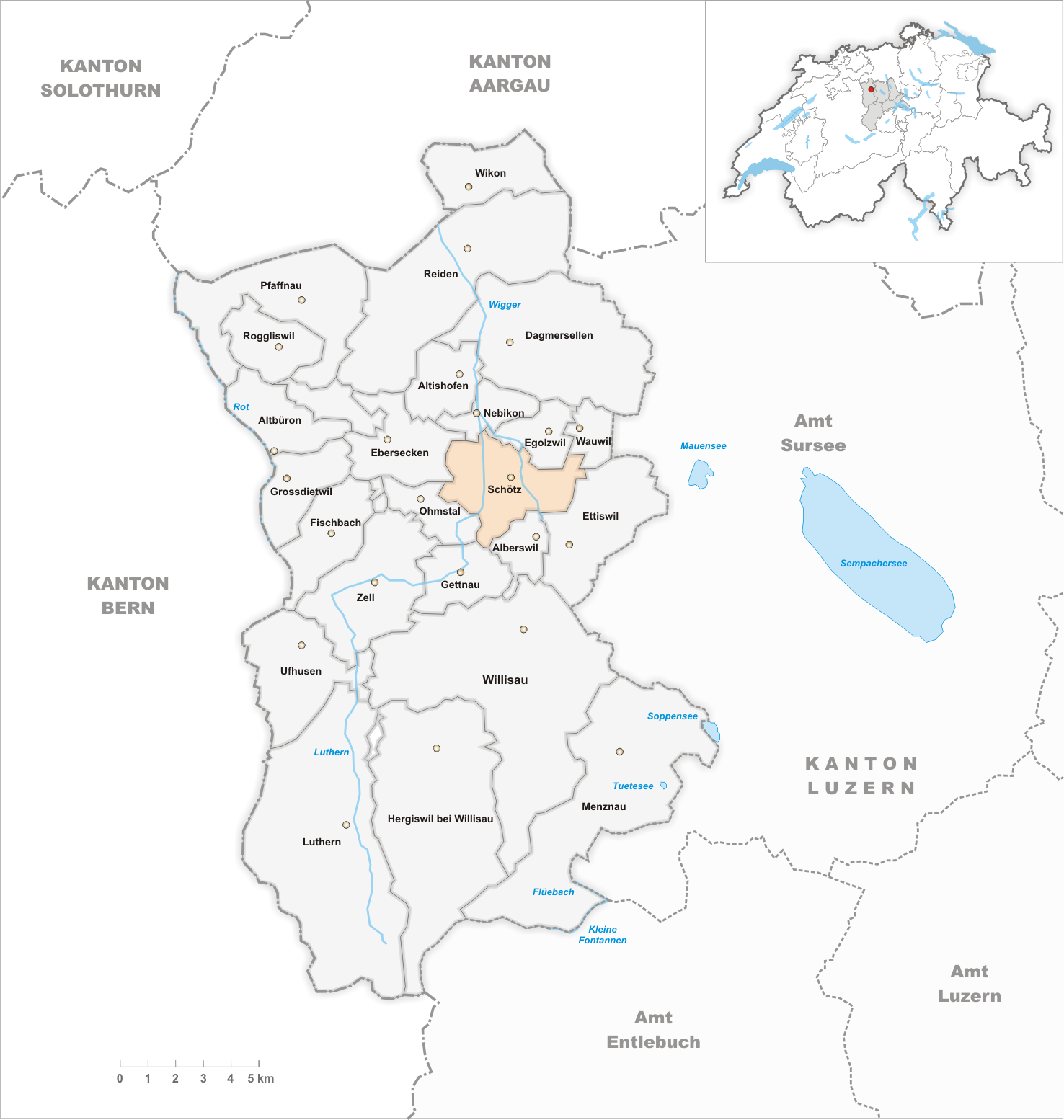 Municipality Schötz